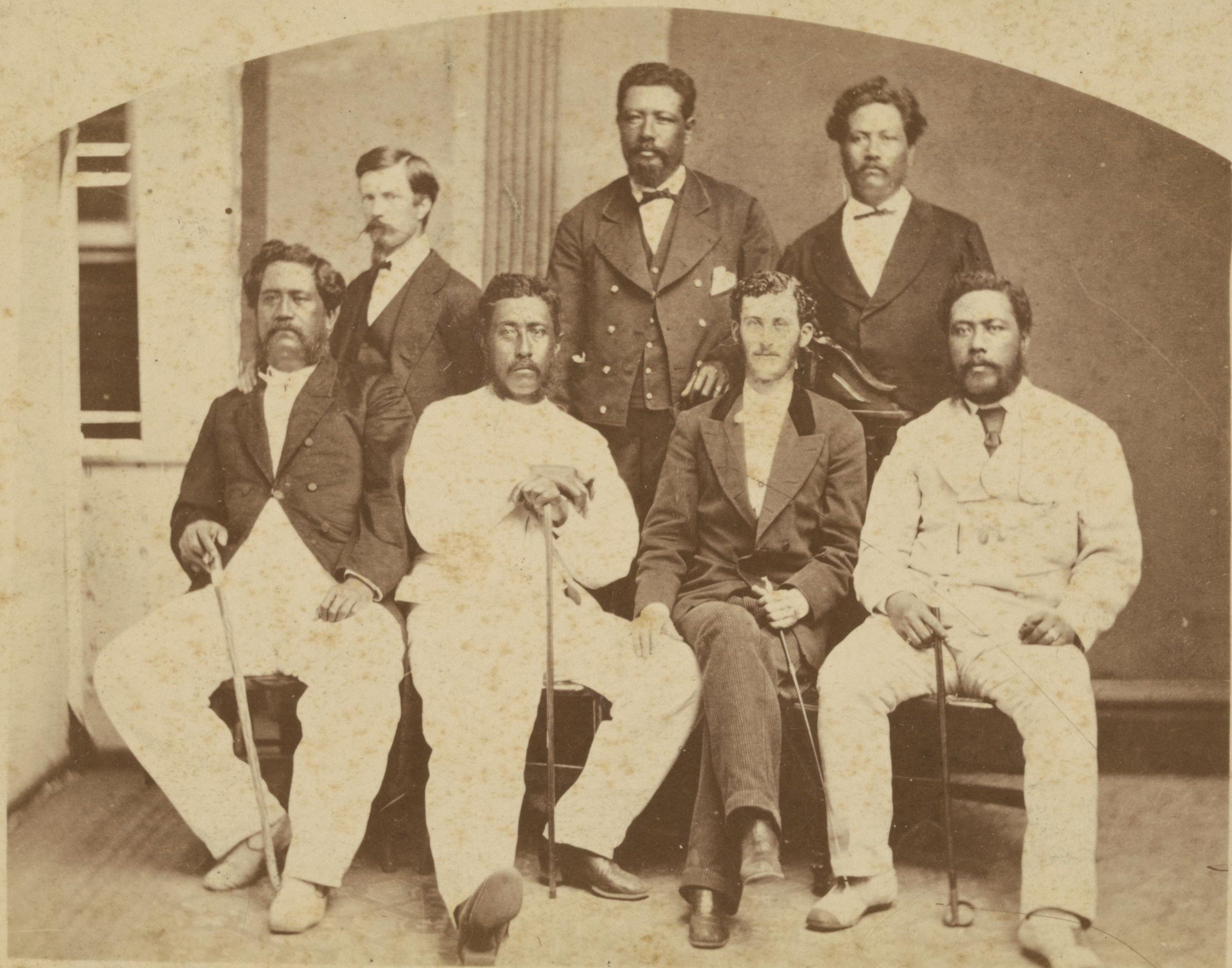 Lunalilo and Kalakaua seated with others, among them is William Luther Moehonua, in the 1870s, either before or after the royal election of 1873.